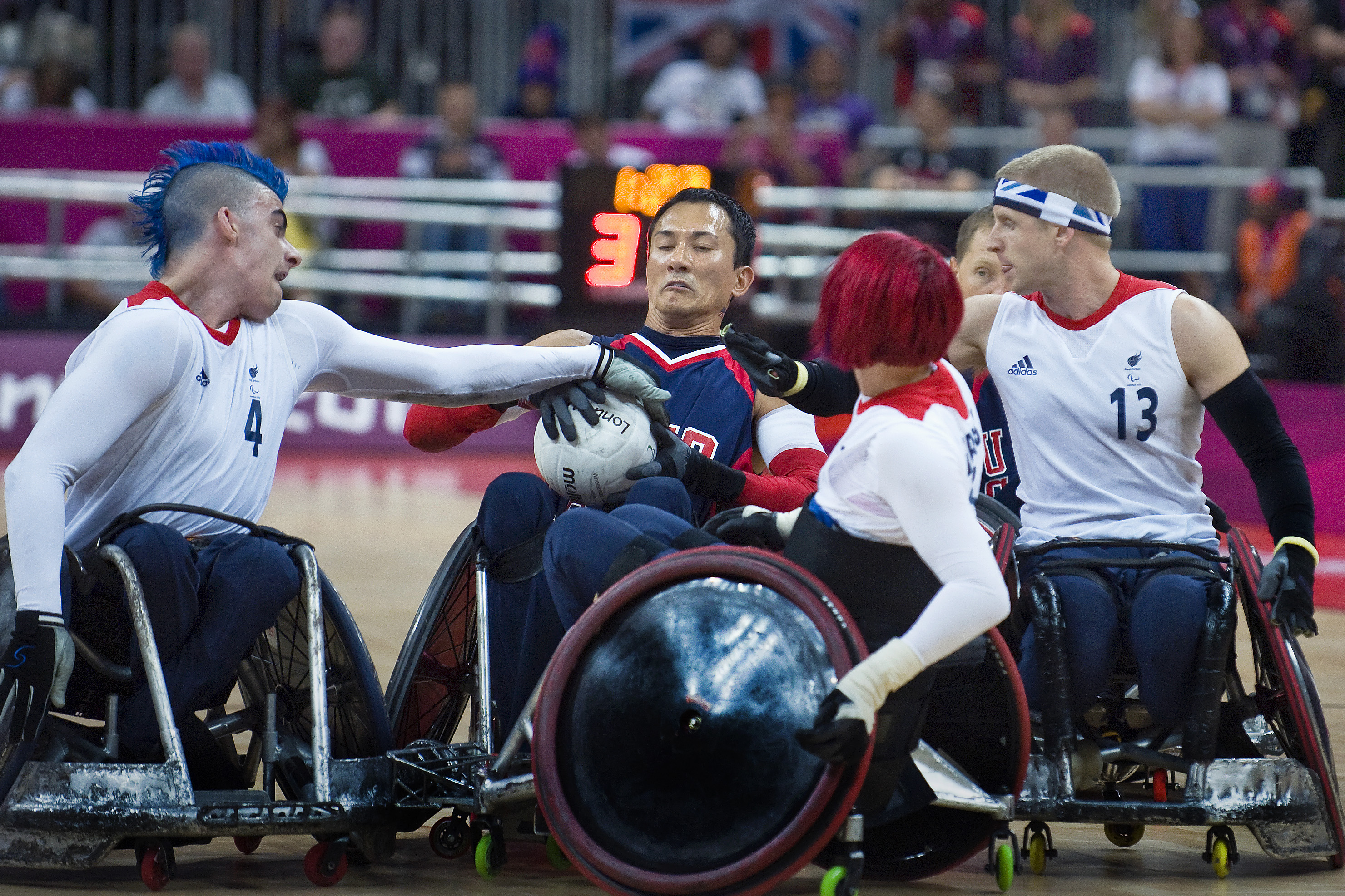 William Groulx, U.S. wheelchair rugby captain, holds the ball as members of the British team try to take it during the 2012 Paralympic Games in London, Sept. 5, 2012.